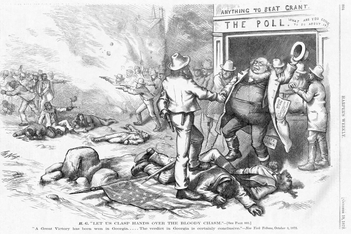 Thomas Nast cartoon ridicules Horace Greeley as traitor